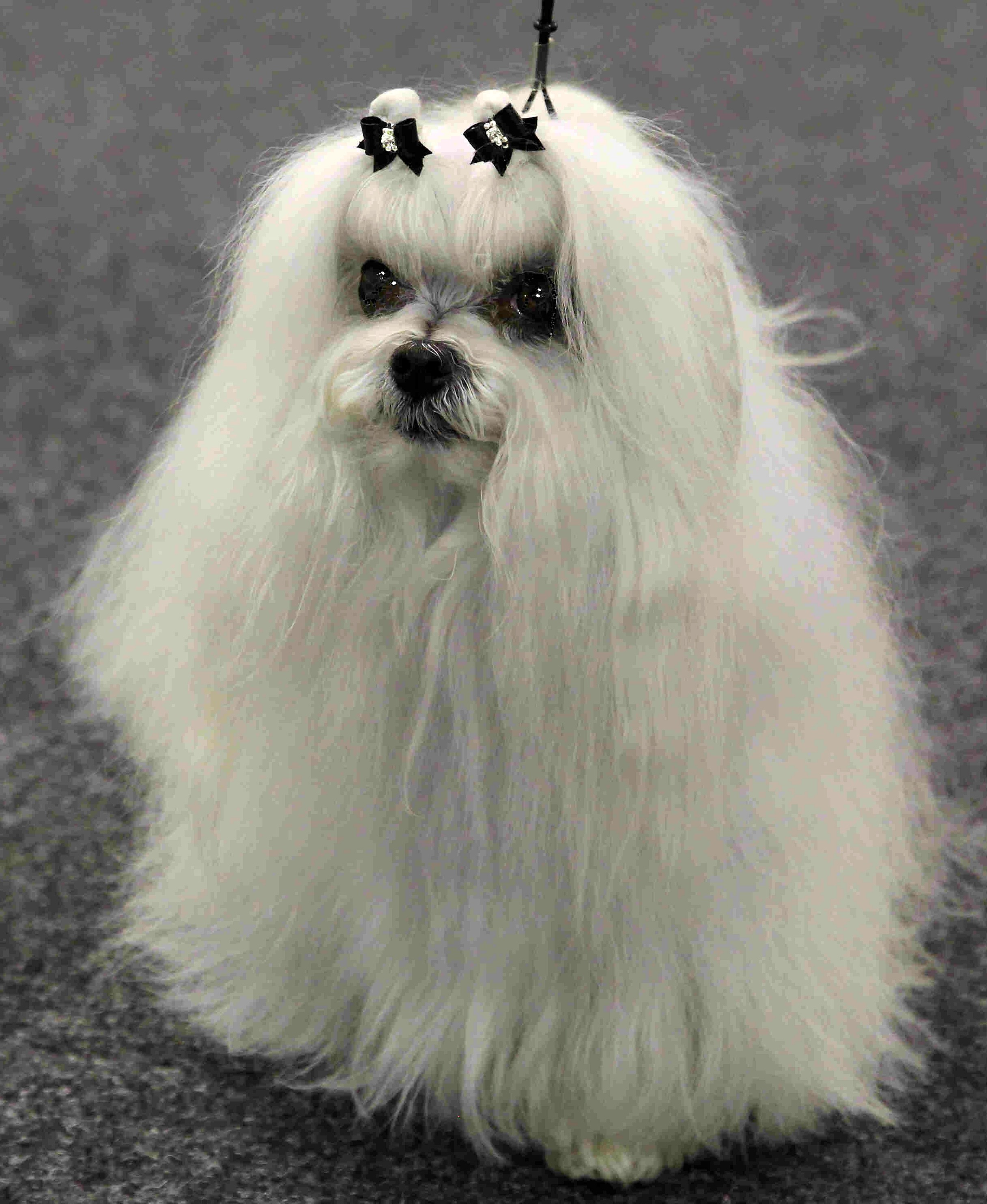 CH Chantique Saying Grace. 2009 top winning Maltese Bitch at New Zealands most prestigous National Dog Show. She was 2nd of 9 Maltese entered awarding her Runner Up Best Of Breed under judge Mr Yu-Feng (Taiwan) making her an International Qualifier to enter Crufts.